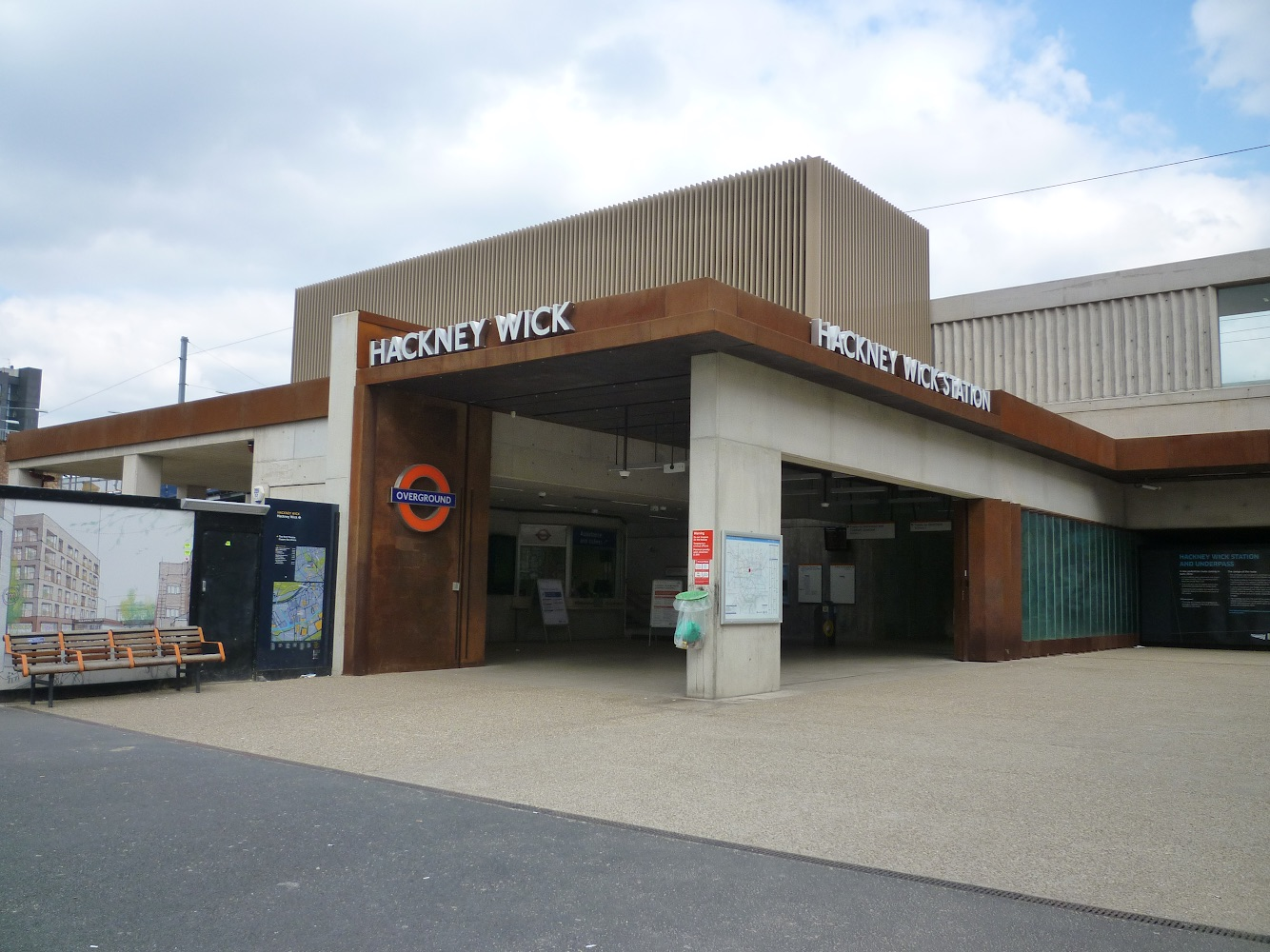 Entrance to Hackney Wick London Overground Railway Station - View from White Post Lane